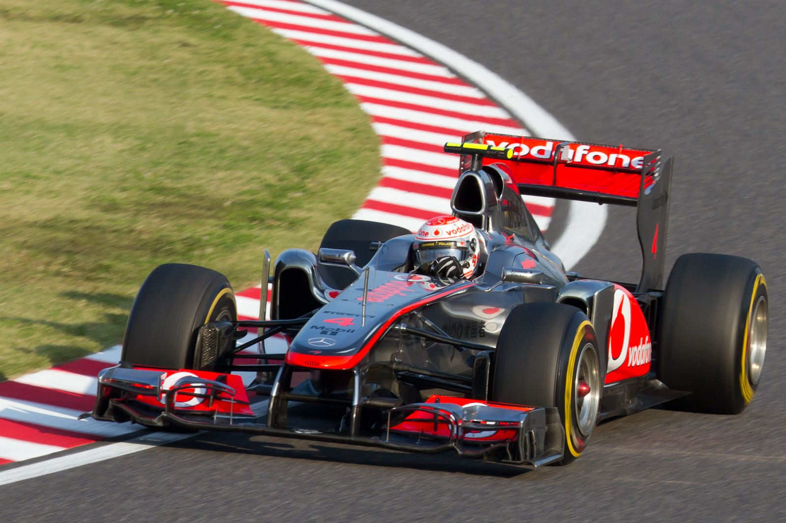 Formula One 2011 Rd.15 Japanese GP: Jenson Button (McLaren) during race.